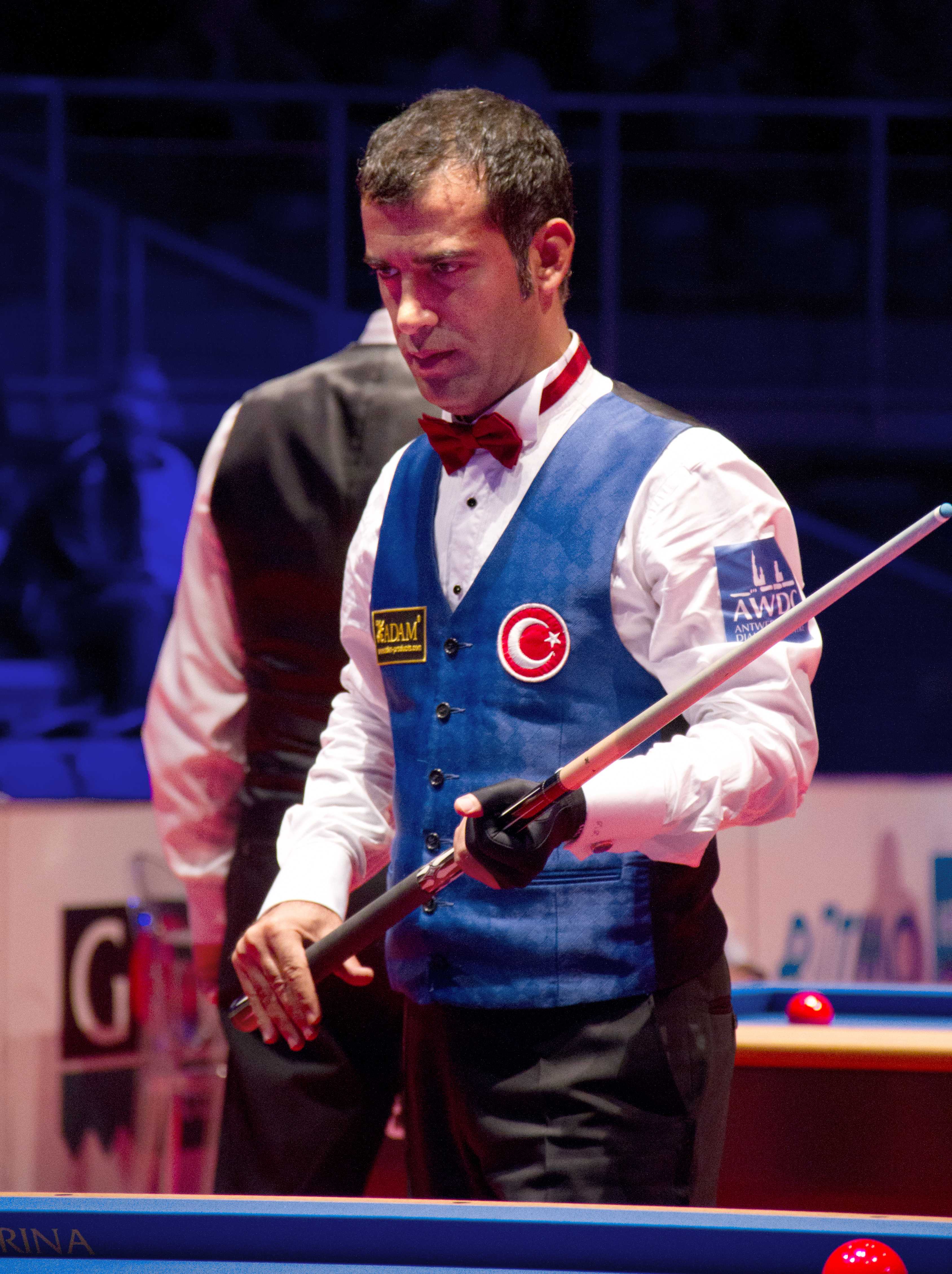 Last 16, Matches 5–8 (Part 2) Match 5: Nikos Polychronopuolos (GRE) vs. Kim Kyung-roul (KOR) Match 6: Filipos Kasidokostas (GRE) vs. Heo Jung-han Match 7: Dick Jaspers (NED) vs. Eddy Merckx (BEL) Match 8: Tayfun Taşdemir (TUR) vs. Huberney Cataño (COL)